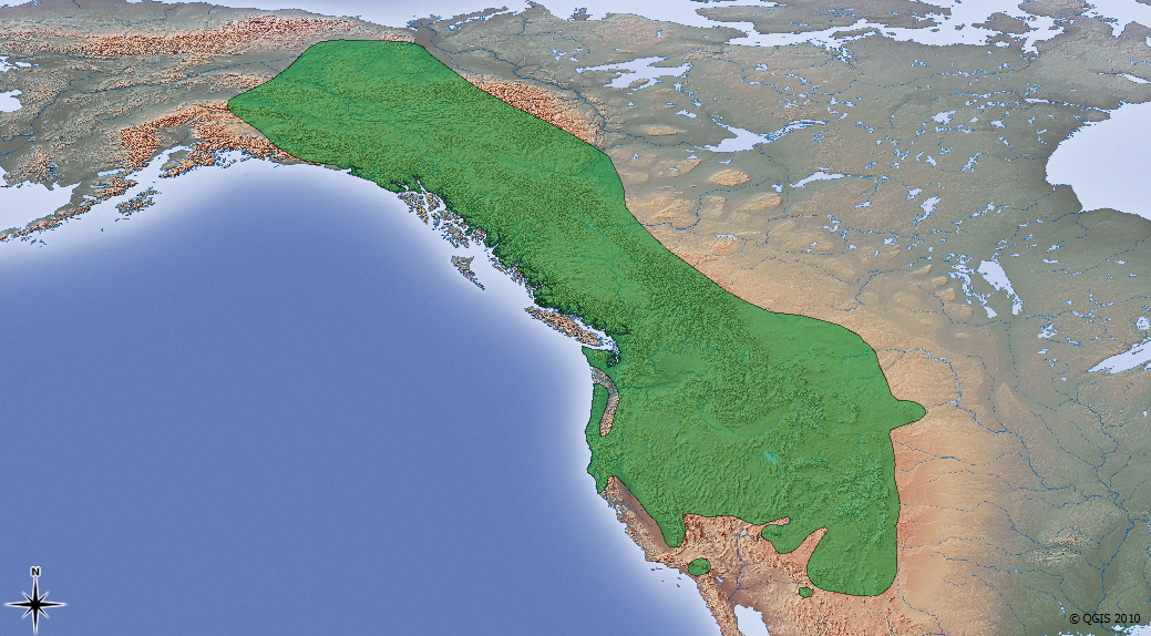 Range of Microtus longicaudis - San Bernardino Vole